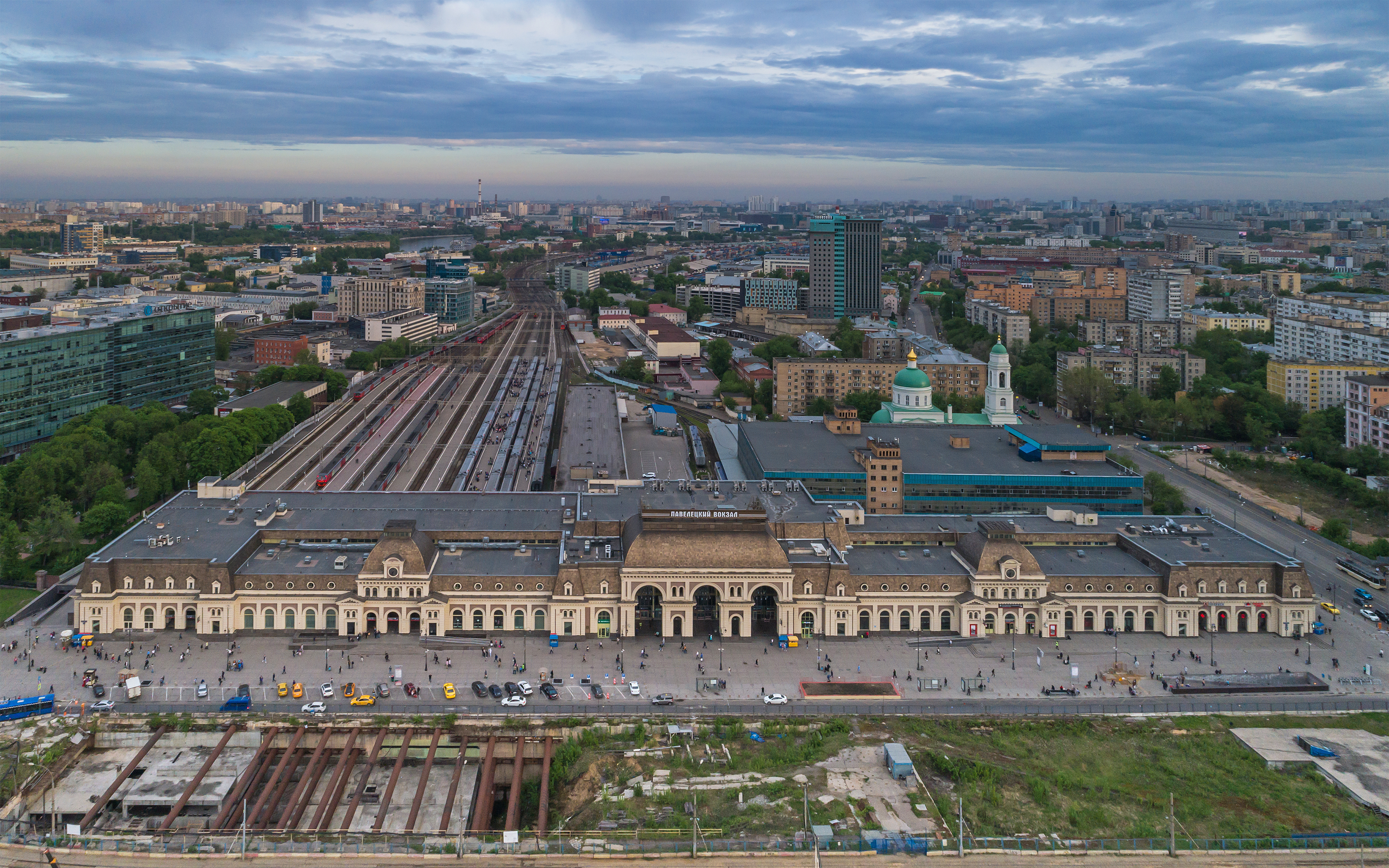 Aerial photo of Paveletsky railway terminus in Moscow (Russia).